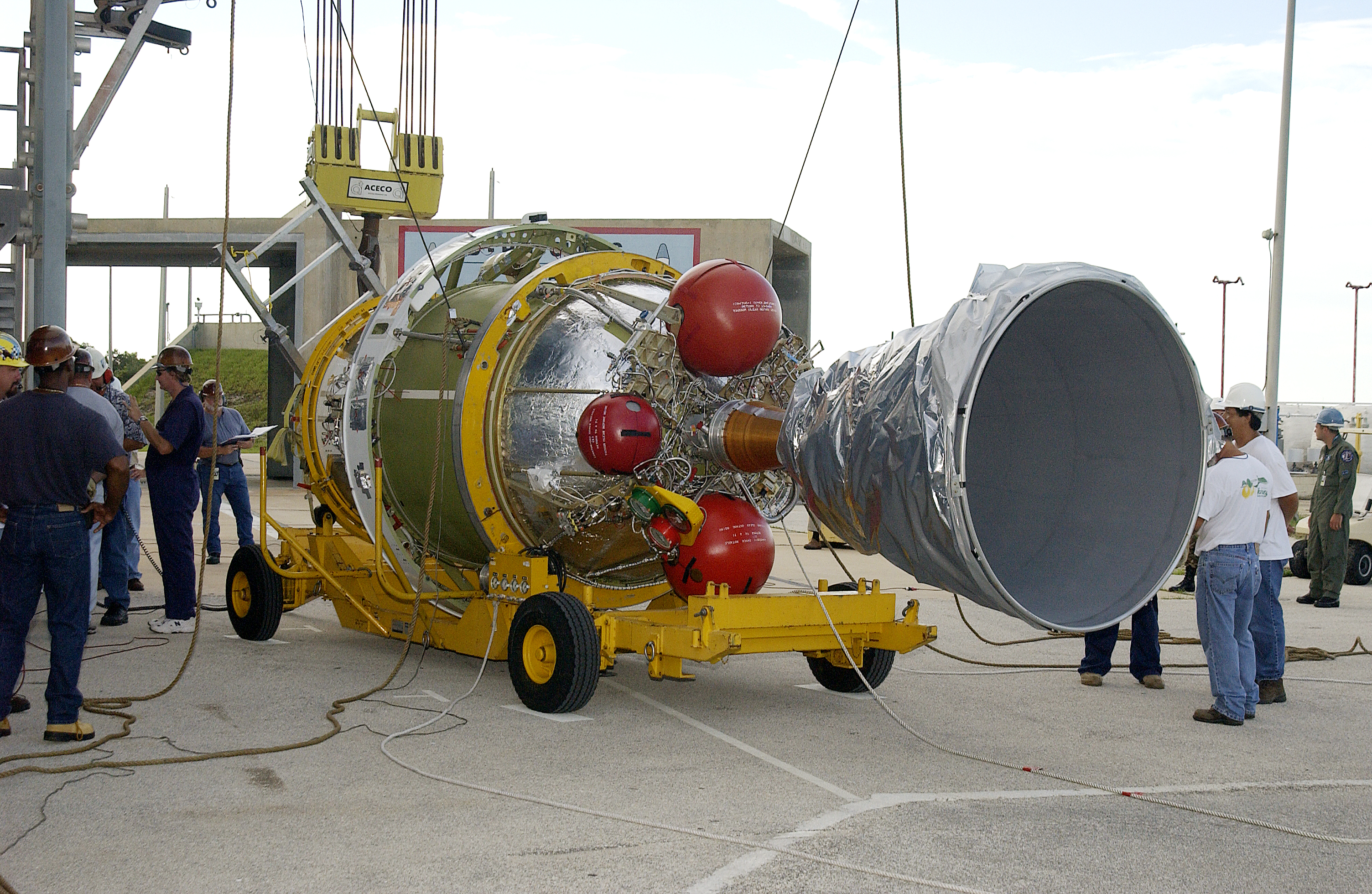 Workers prepare to hoist the second stage of SIRTF's Delta II rocket up the tower at pad 17-B on Cape Canaveral Air Force Station.